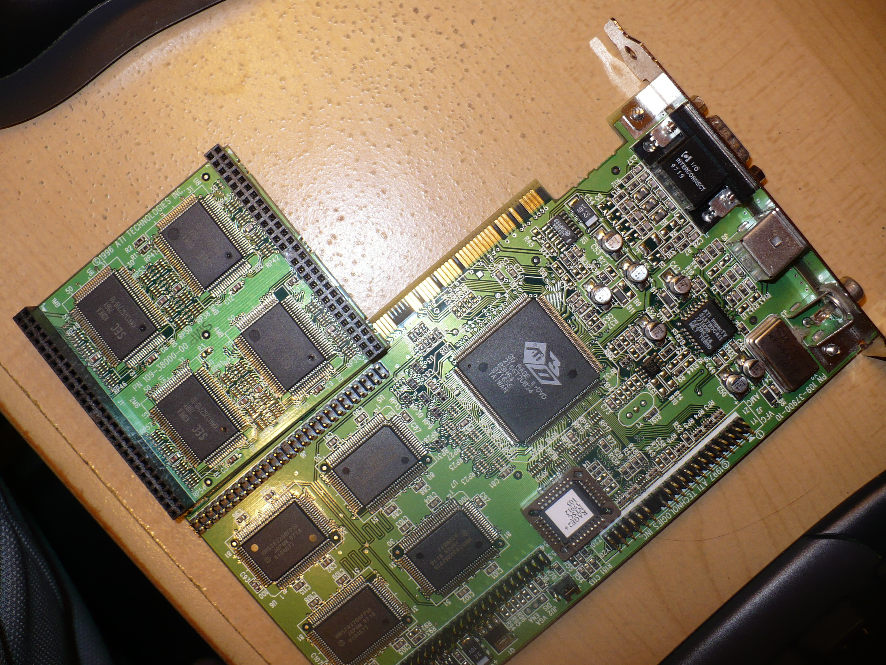 ATI 3D Rage II+ DVD With the panel removed from the pins